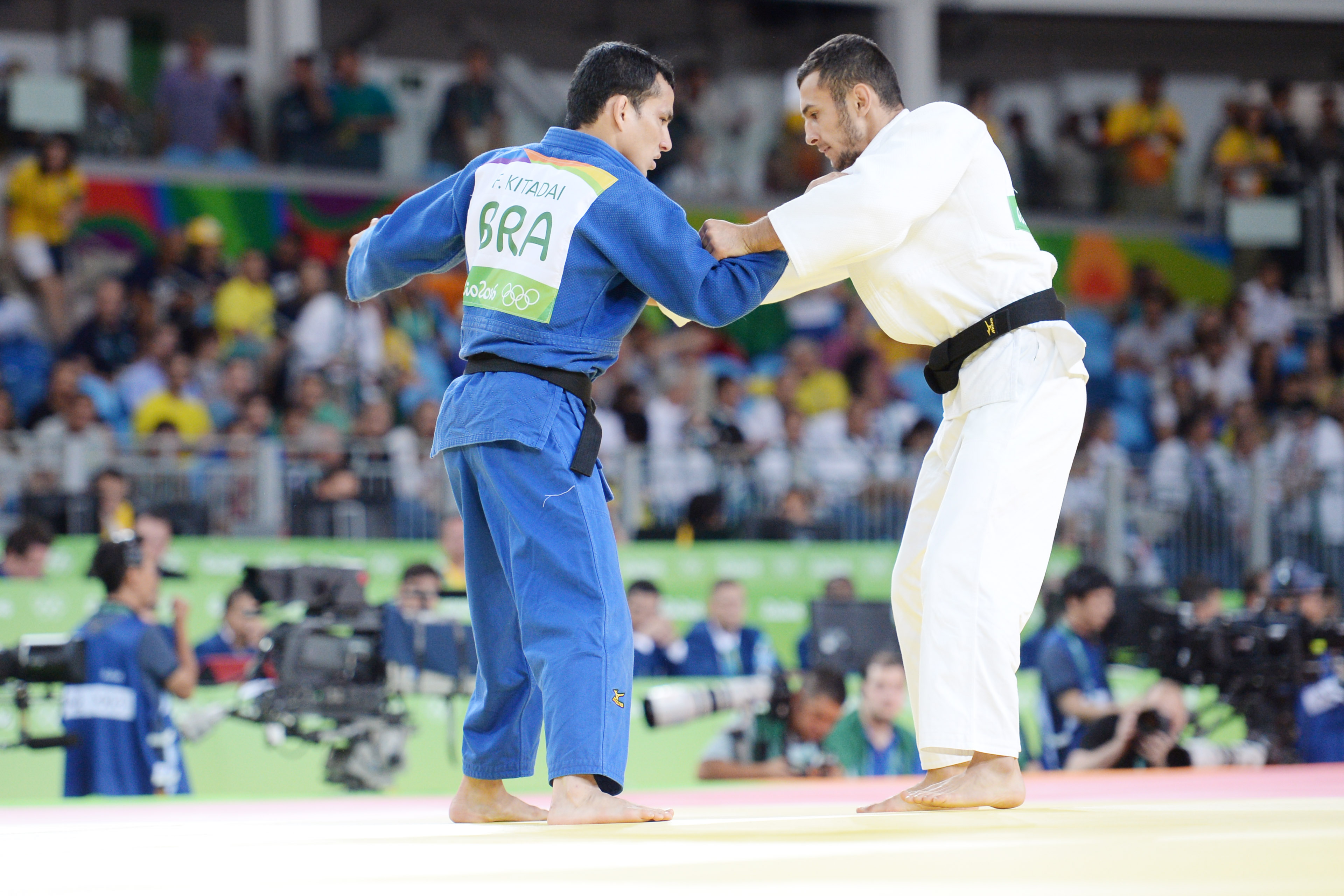 Judo at the 2016 Summer Olympics, Safarov vs Kitadai